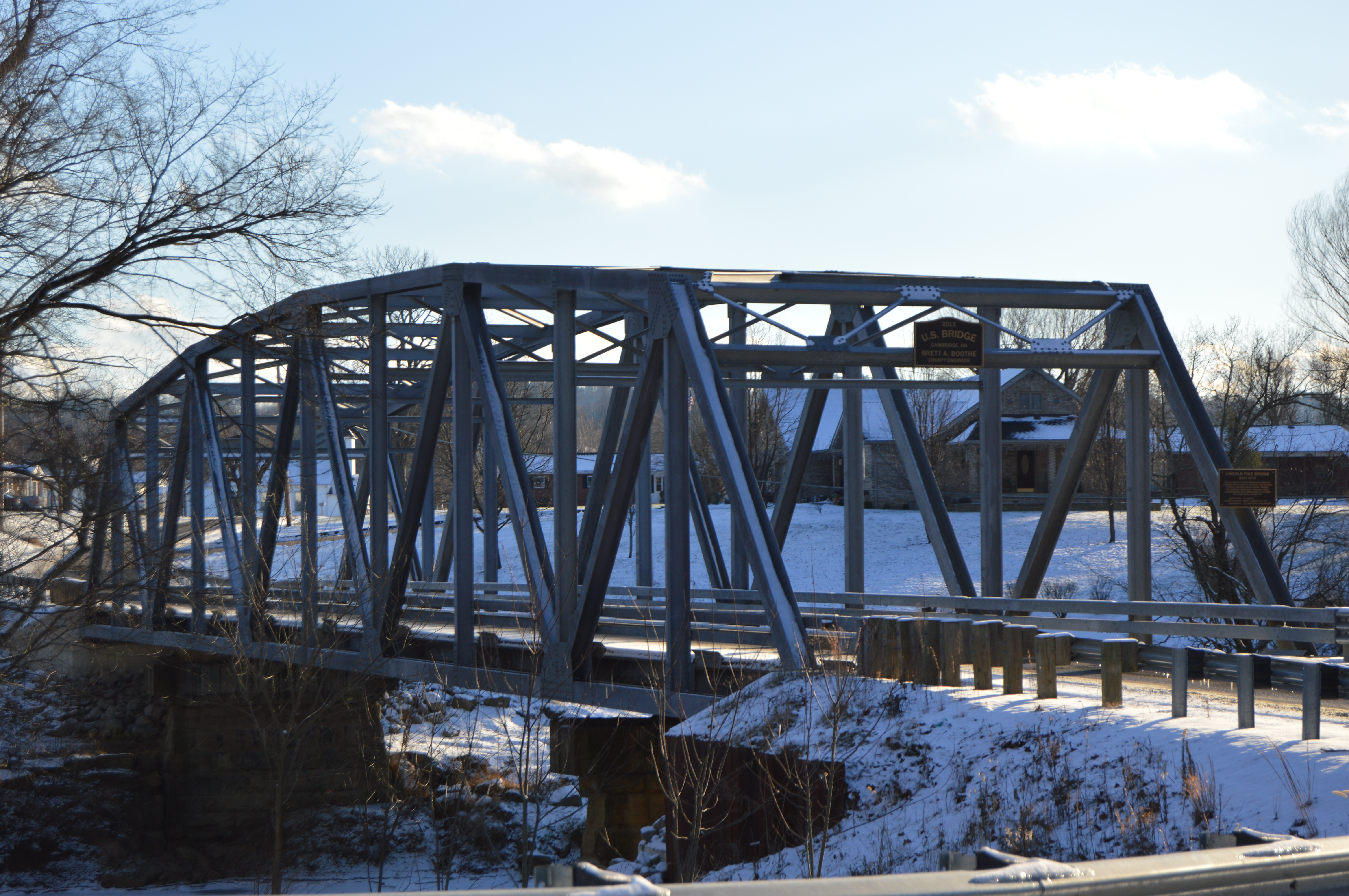 Northern portal and eastern (downstream) side of the bridge that carries Lincoln Pike over Raccoon Creek at Northup in Green Township, Gallia County, Ohio, United States. The nameplate notes that the bridge was completed in 2013.